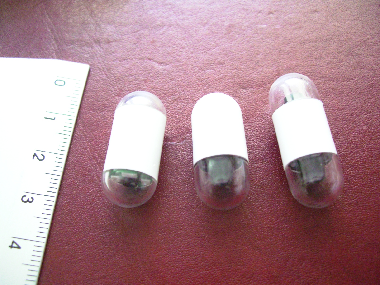 Camera capsules used for the internal examination of the esophagus, the small intestine and the large intestine (from left to right).